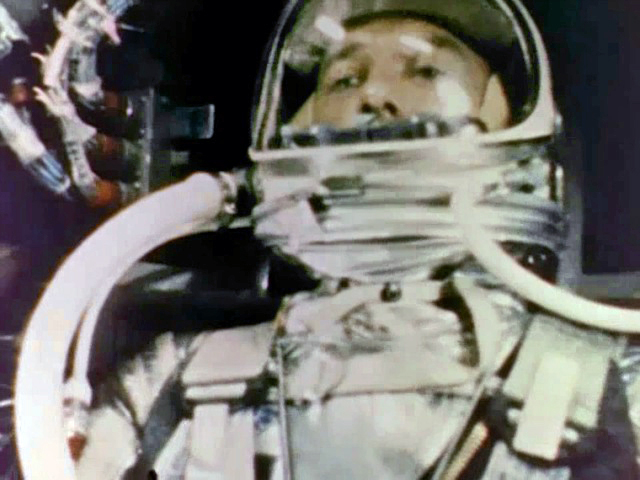 Screen grab of Alan Shepard from the NASA film "Freedom 7".